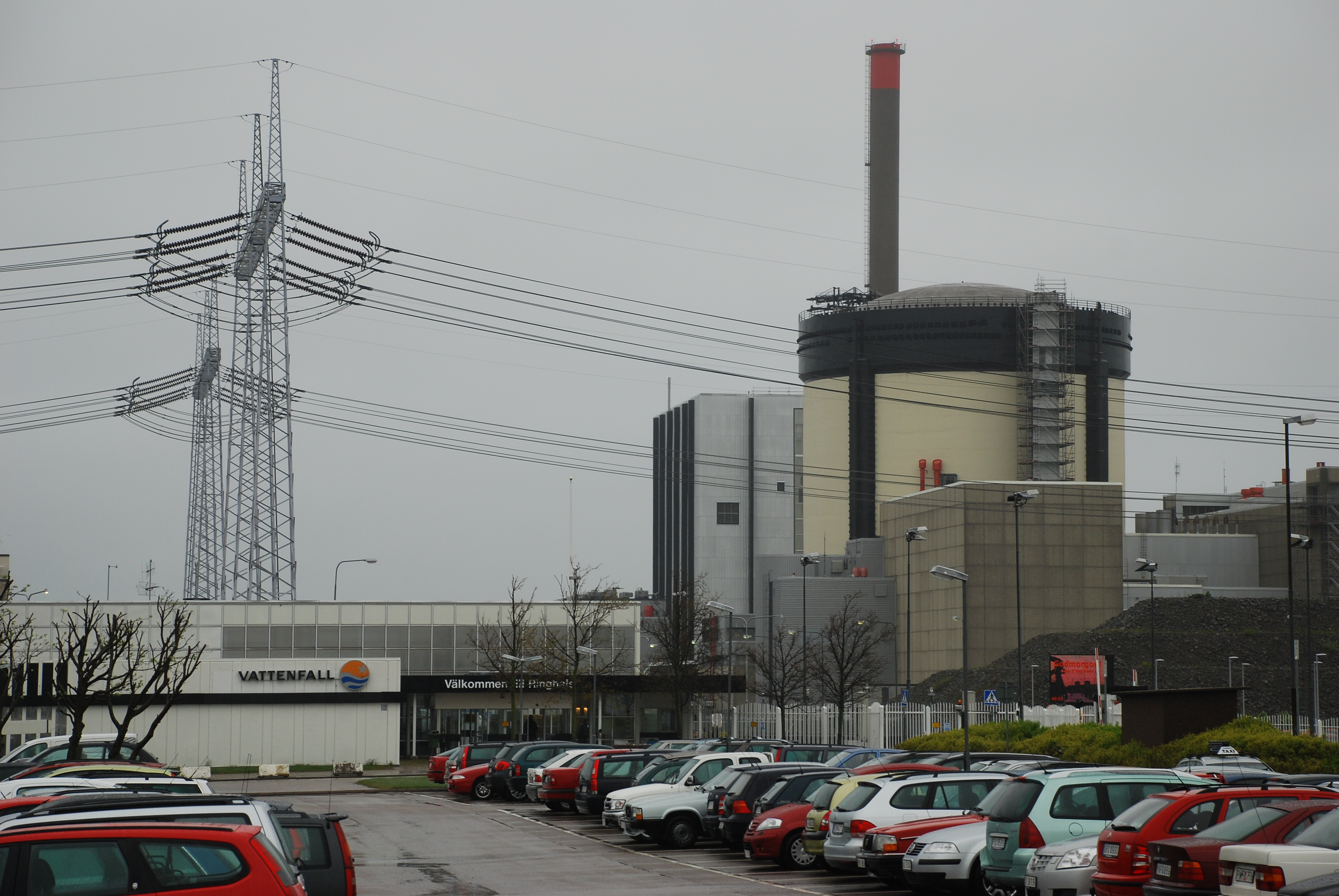 The Ringhals nuclear power plant